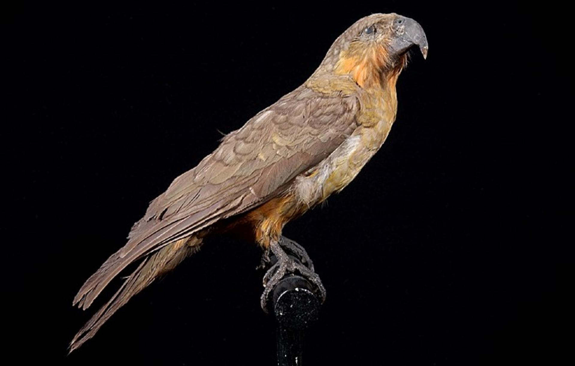 Nestor productus Gould, 1836